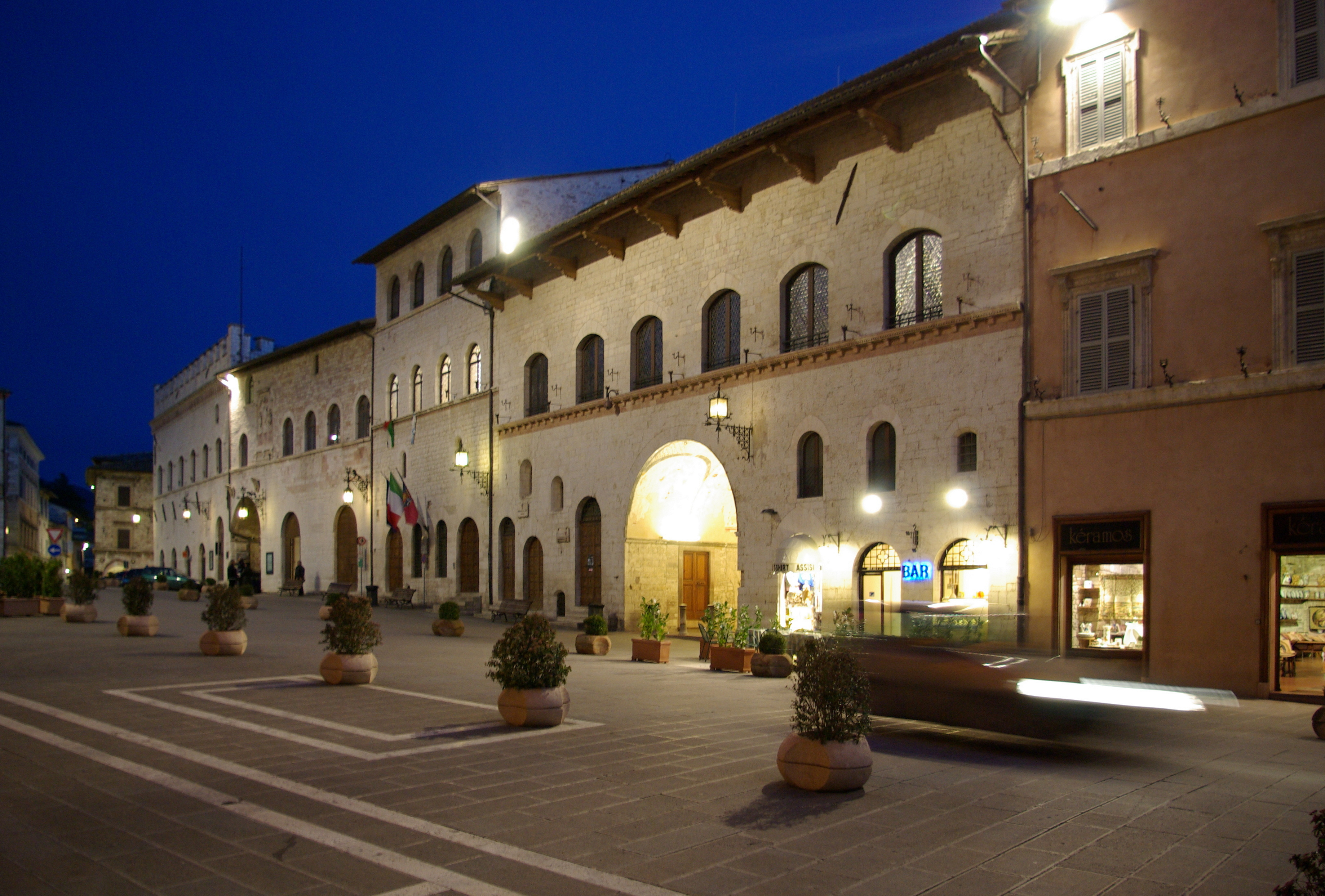 Assisi, Piazza del Comune